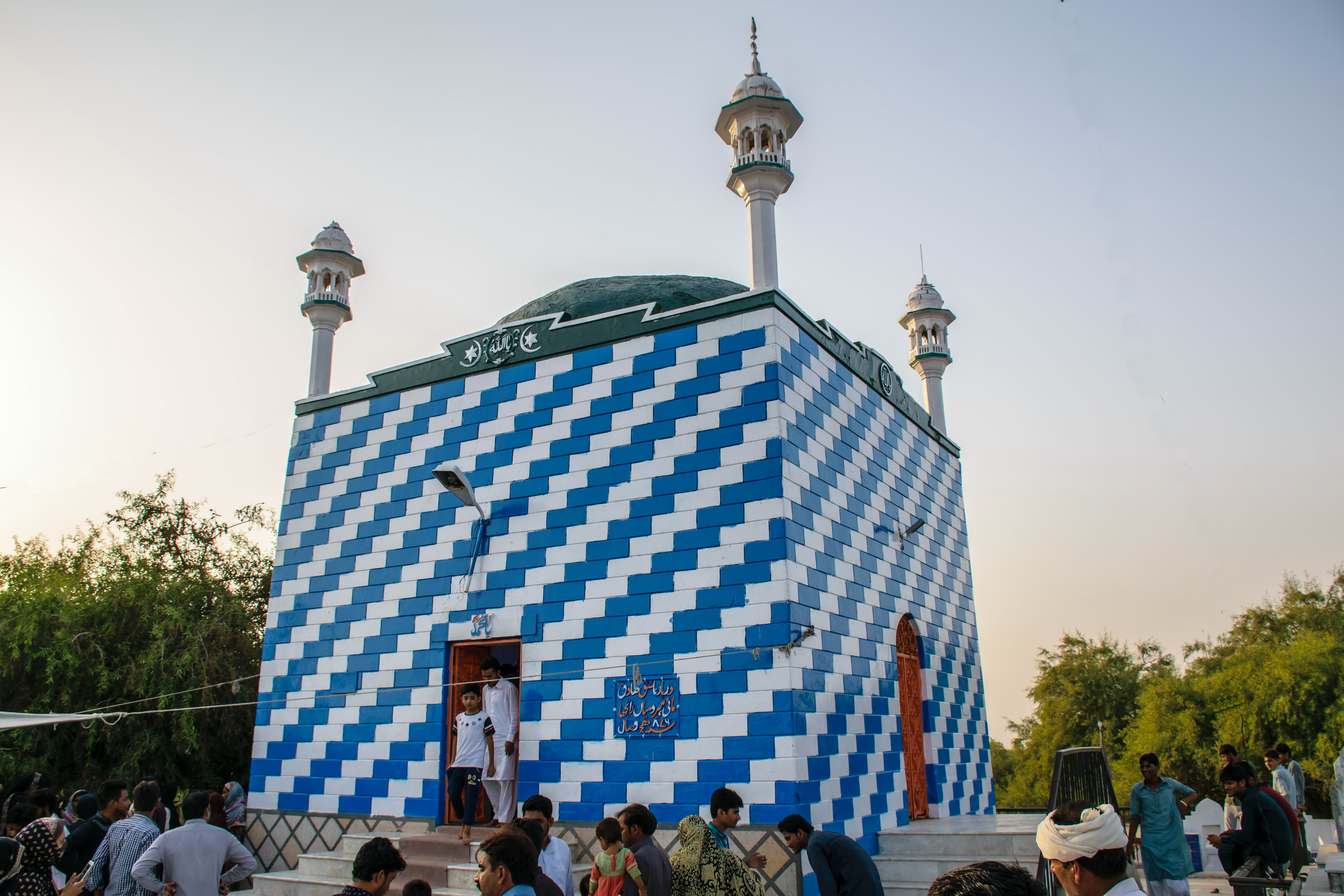 Tomb of Mahi Heer (Heer Ranjha) Heer Ranjha is one of several popular tragic romances of Punjab.